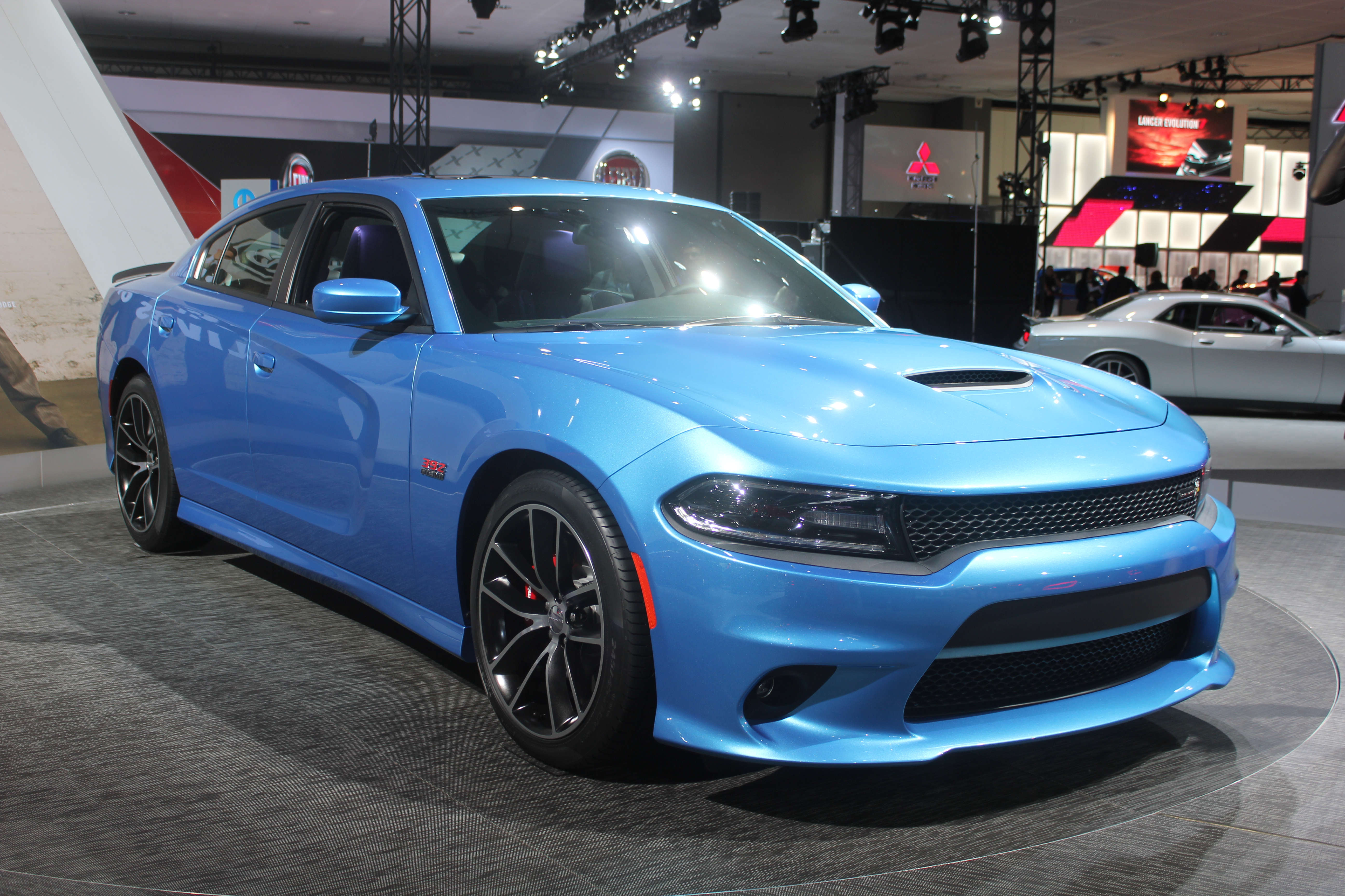 This is the new 2015 Dodge Charger SRT 392 with the Scat Pack at the LA Auto Show.